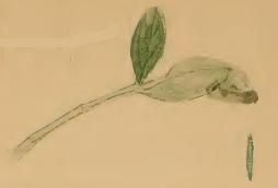 Stainton’s Natural History of the Tineina (1855–1873): Agonopterix liturosa shoot of Hypericum with apical leaves drawn together by larva